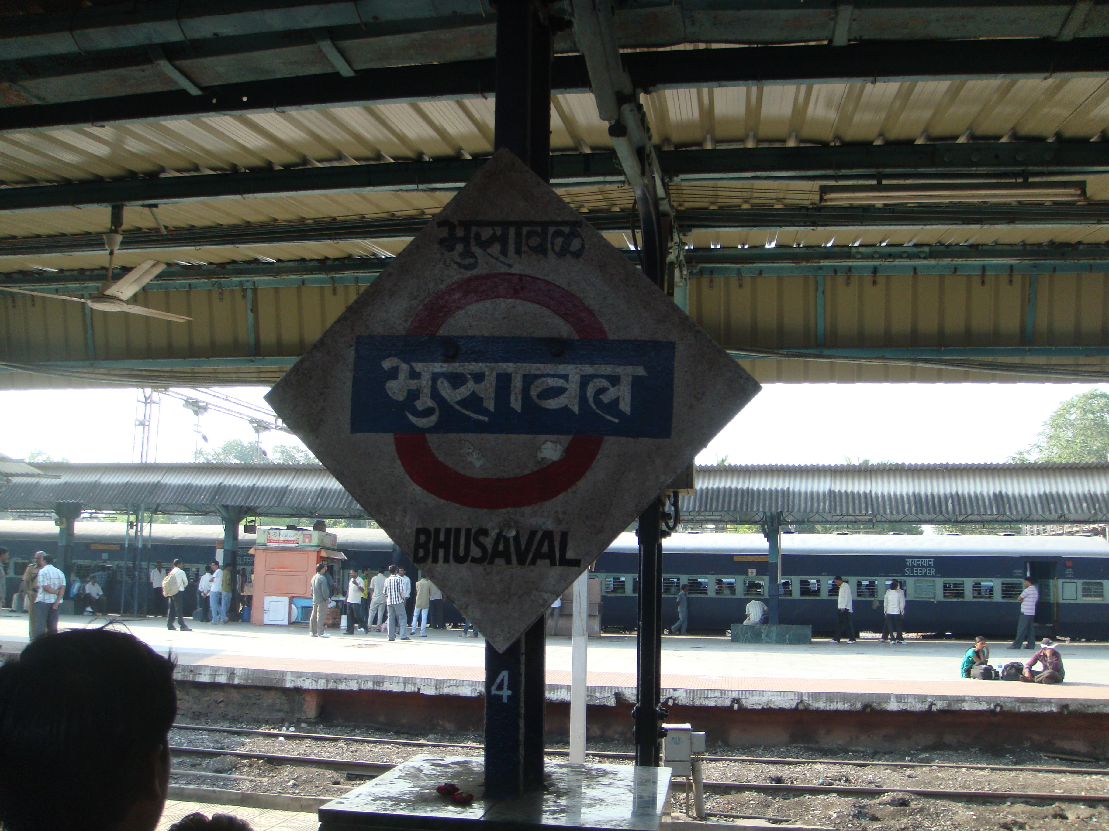 Bhusawal Junction (2)